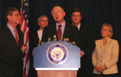 Sen. Salazar with Chairman Dominici (R-NM), Ranking Member Bingaman (D-NM), Sen. George Allen (R-VA) and Sen. Mary Landrieu (D-LA) supporting the passage of the Energy Policy Act of 2005.